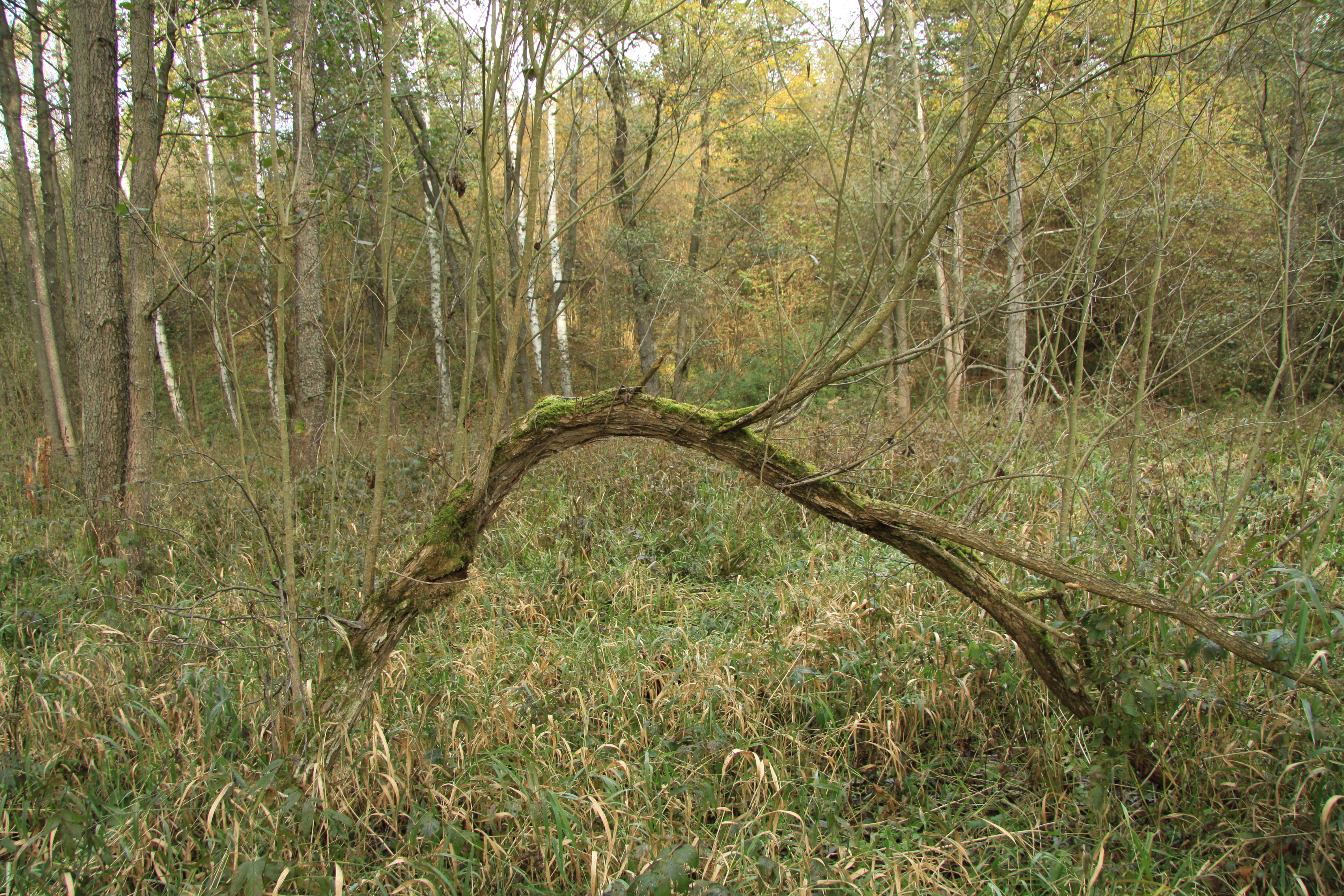 Nature reserve Dobročkovské hadce near Dobročkov village partly lying on the area of CHKO Blanský les, Prachatice District, Czech Republic Project: Chráněná území.